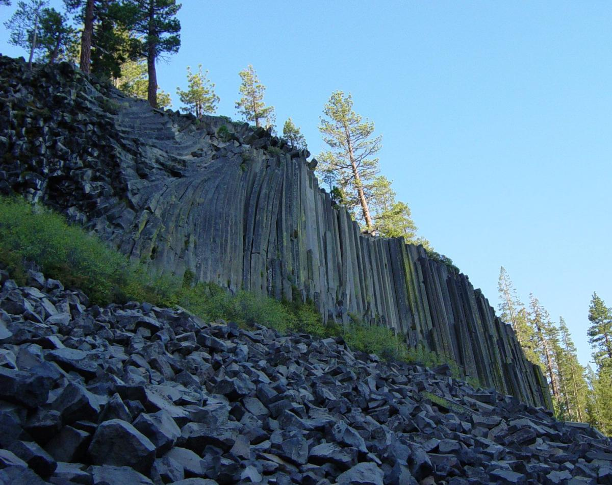 Devils Postpile from base